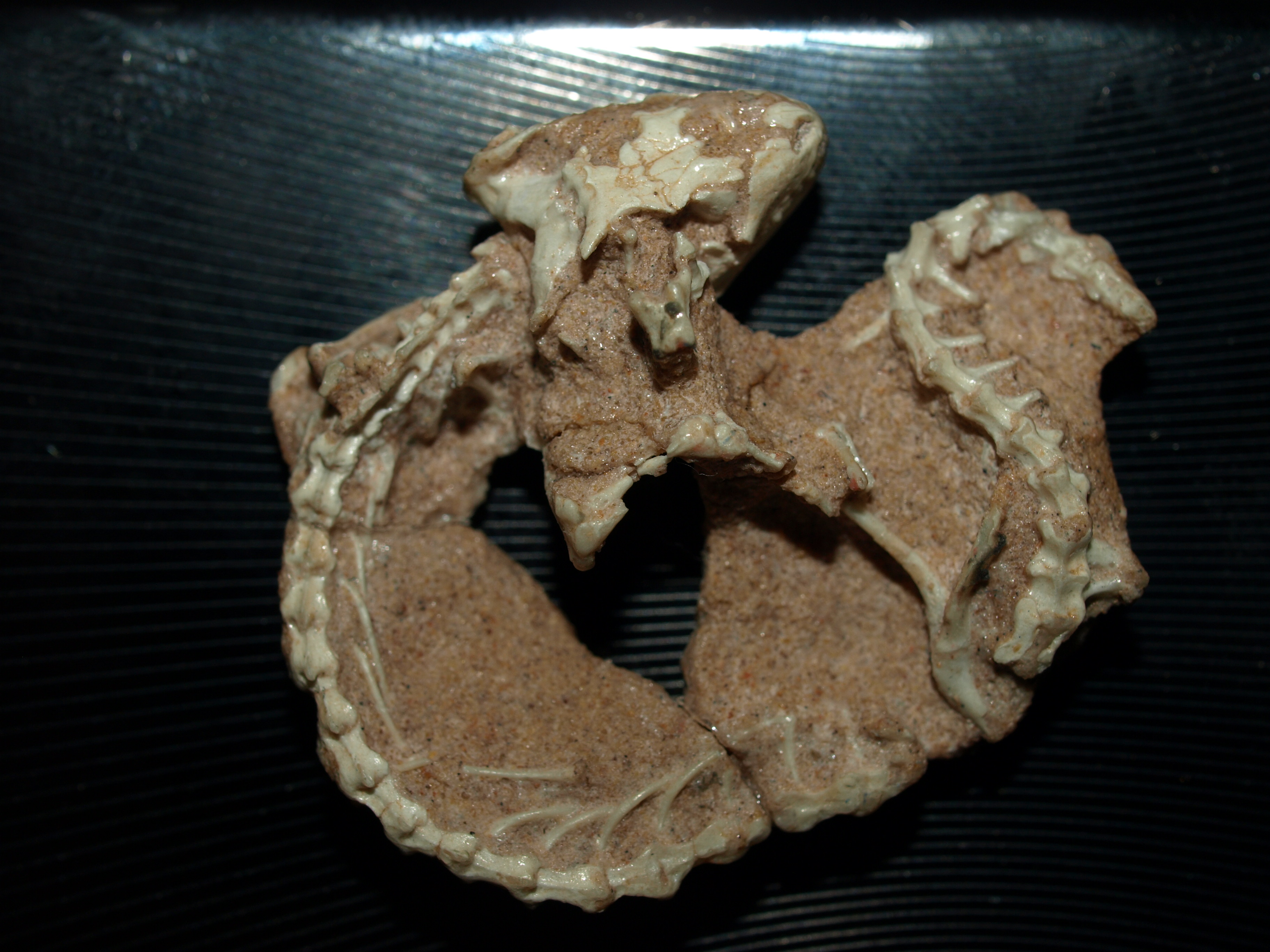 Slavoia darevskii (in the collection of the University of Warsaw).